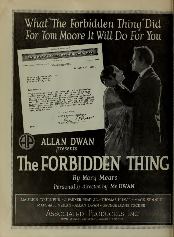 Ad for the American film The Forbidden Thing (1920) directed by Allan Dwan.